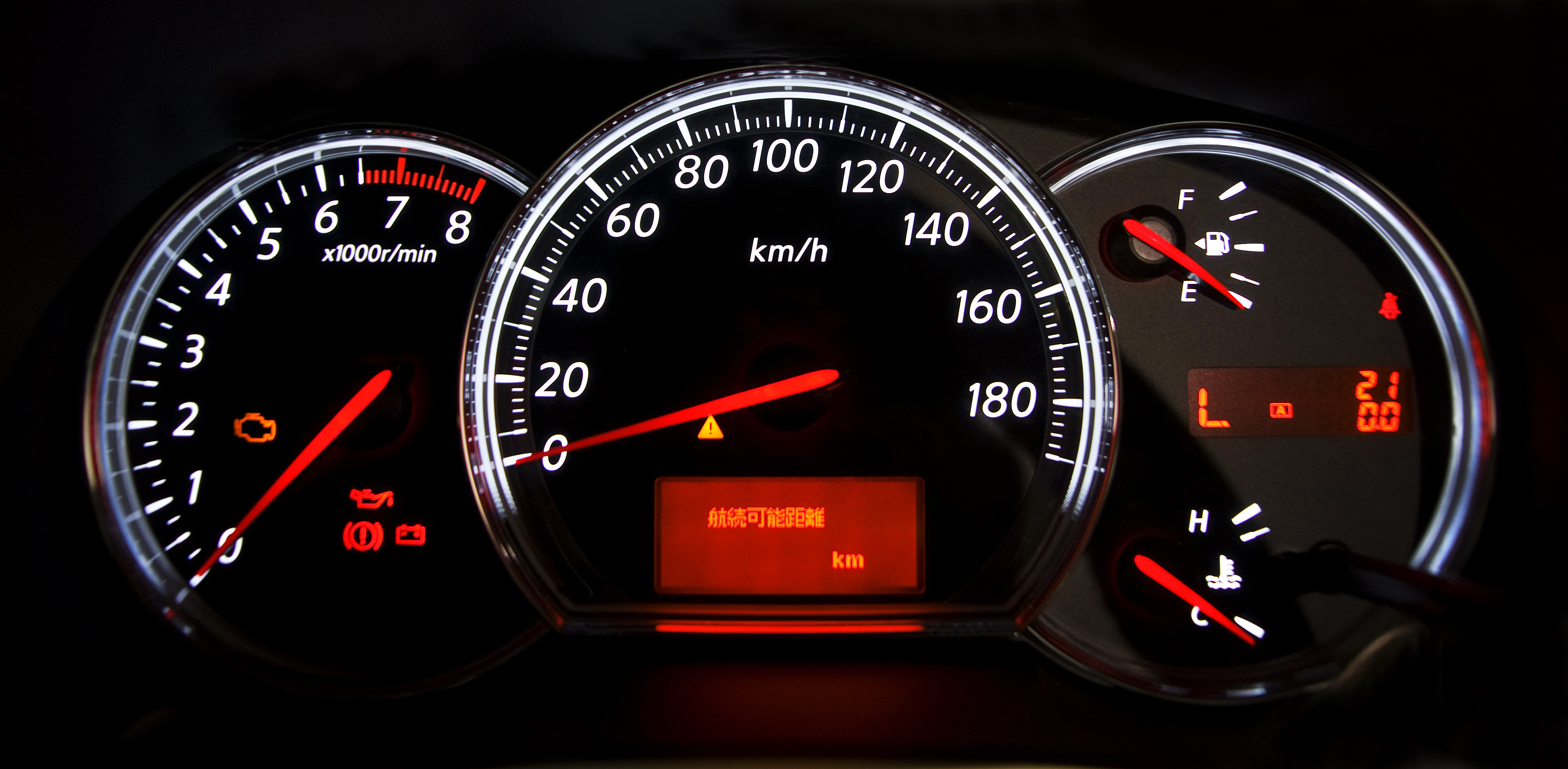 2008 2nd generation Nissan Teana Interior